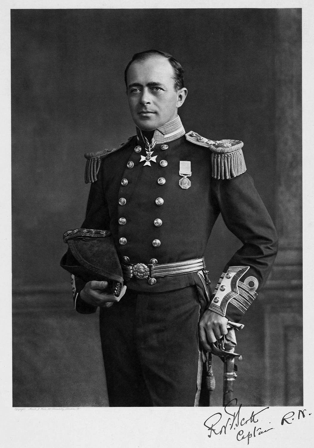 Robert Falcon Scott in full regalia: this was reproduced as a frontispiece for Scott's The Voyage of the Discovery (London 1905).[1]